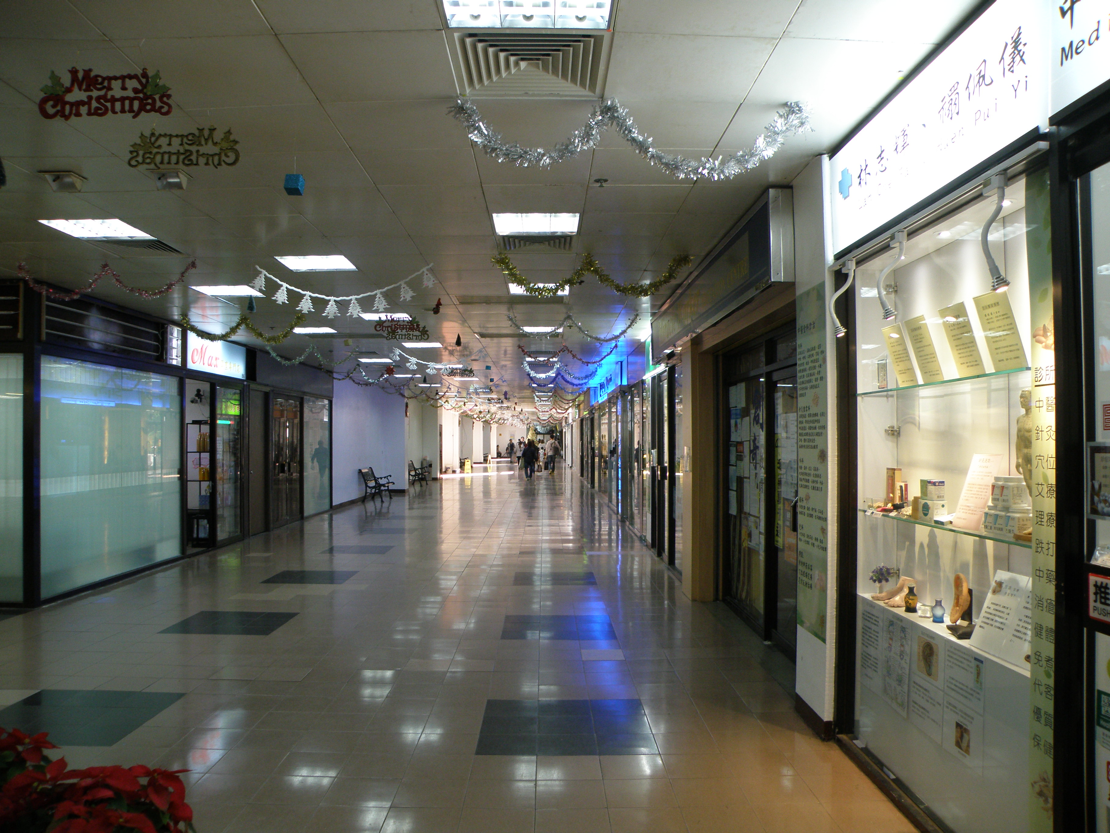 Sun Hing Shopping Mall in Tai Po, Hong Kong.